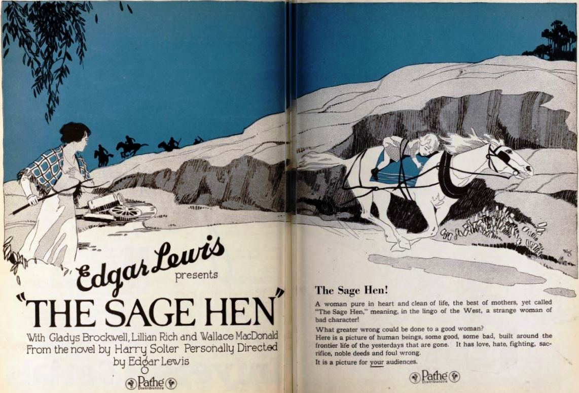 Advertisement for the American western film The Sage Hen (1921), on pages 4 and 5 of the February 5, 1921 Exhibitors Herald.